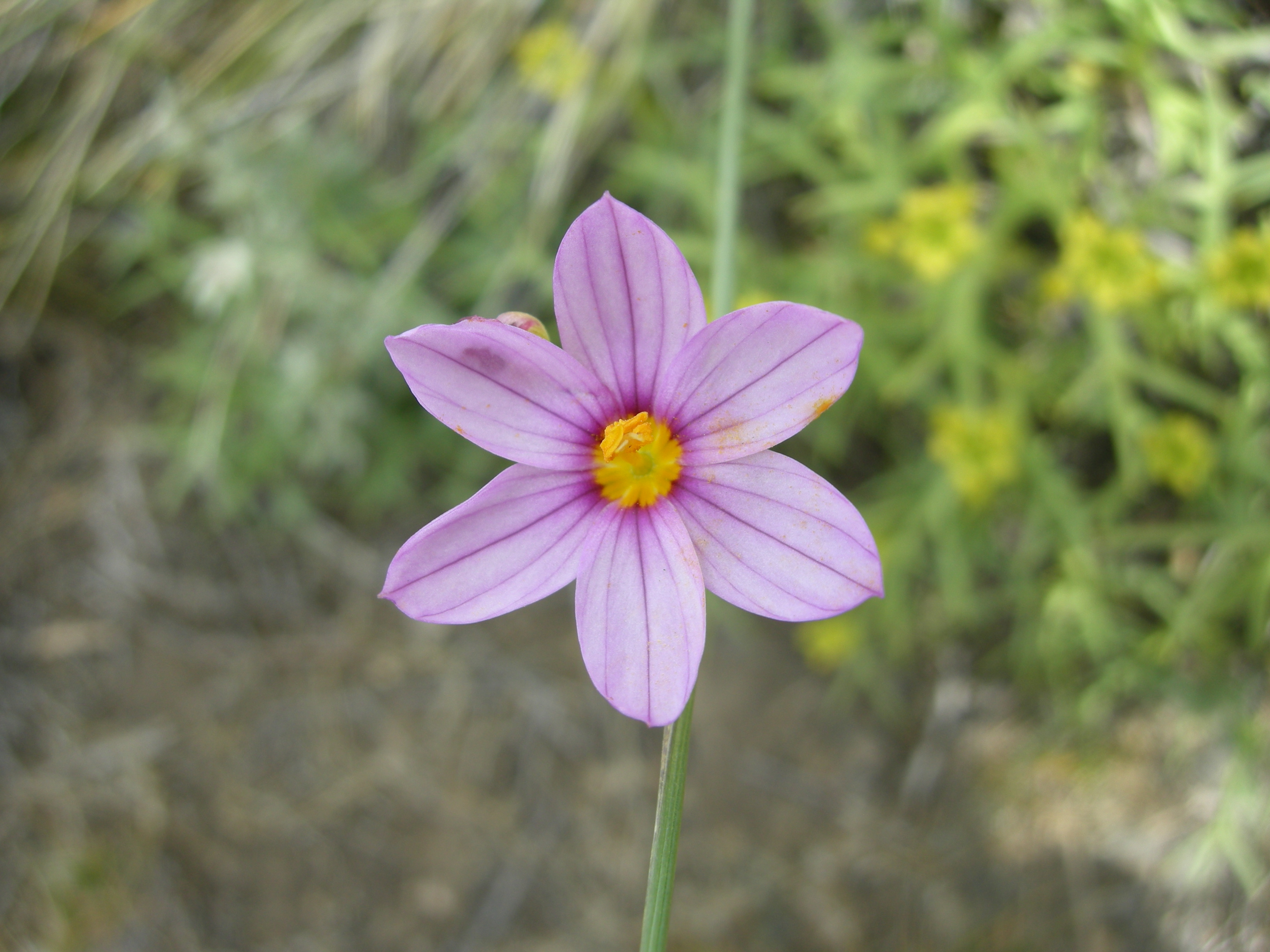 Flower of the species Olsynium junceum. Picture taken in Belgrano peninsula, in the Perito Moreno national park (Santa Cruz provincia, Argentina).